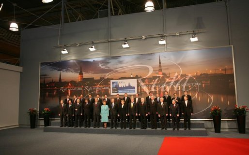 NATO heads of state and government stand for the official portrait Wednesday, Nov. 29, 2006, at the 2006 NATO Summit in Riga, Latvia.